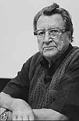 Herbert Ballmann on July 24, 2002